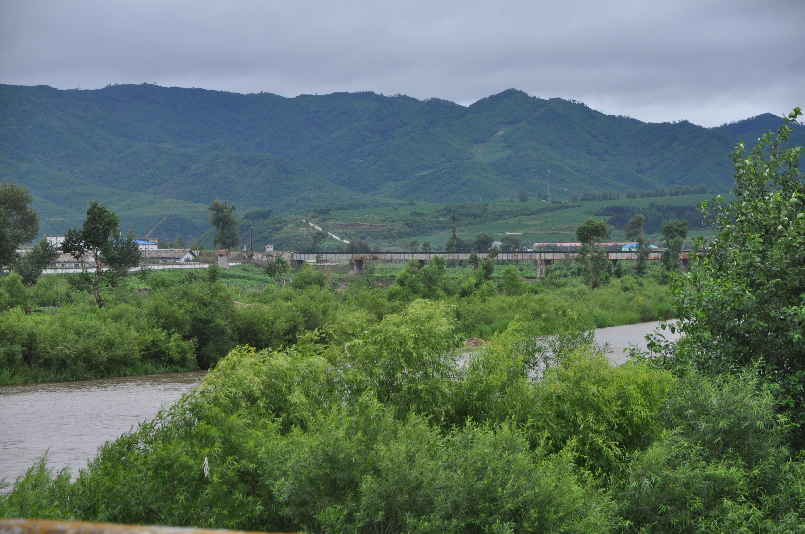 Tumen Border Railway Bridge can be seen about 200m upstream of Tumen Border Bridge